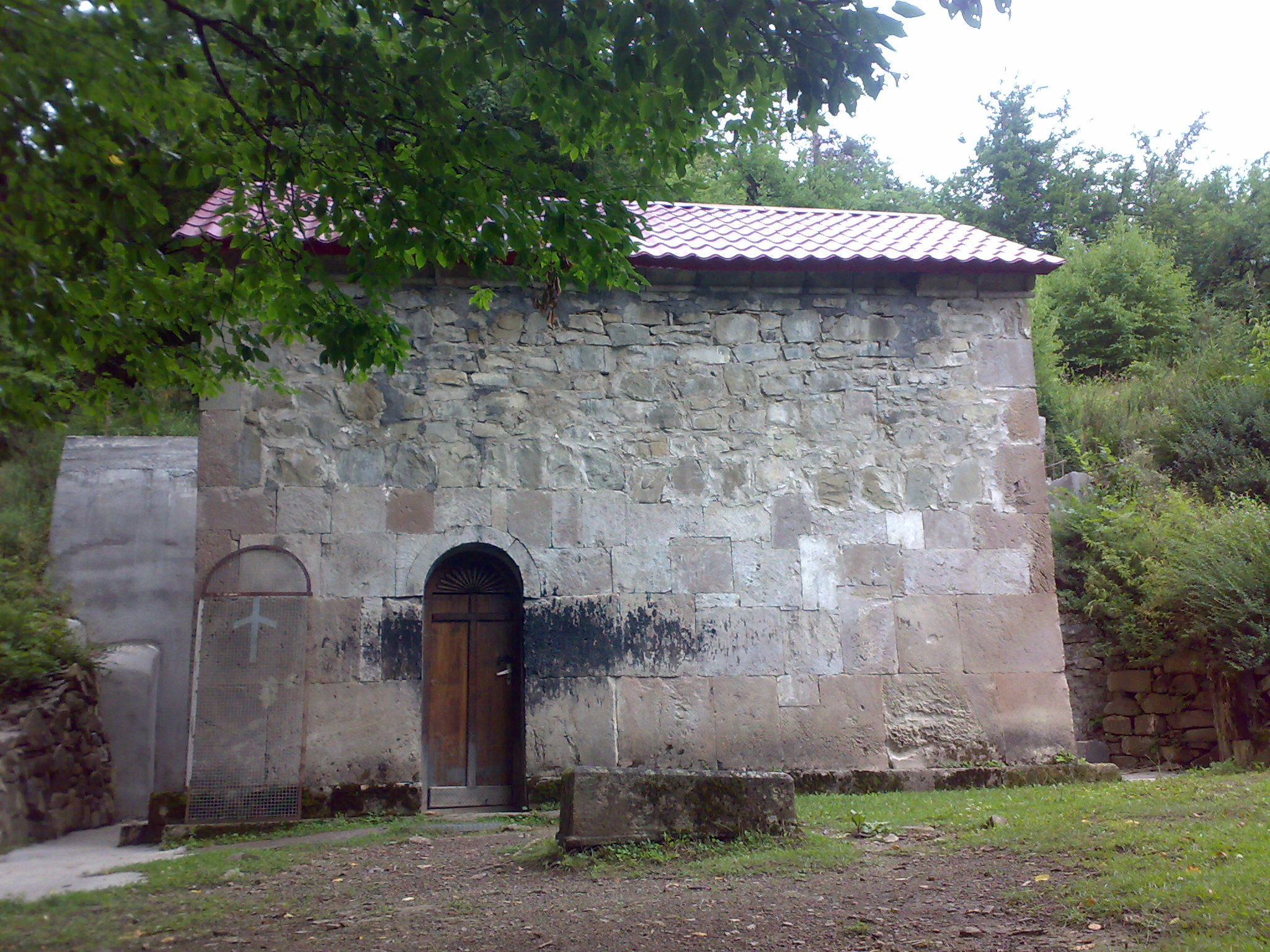 ST Barbare Church of the Timotesubani Monastery